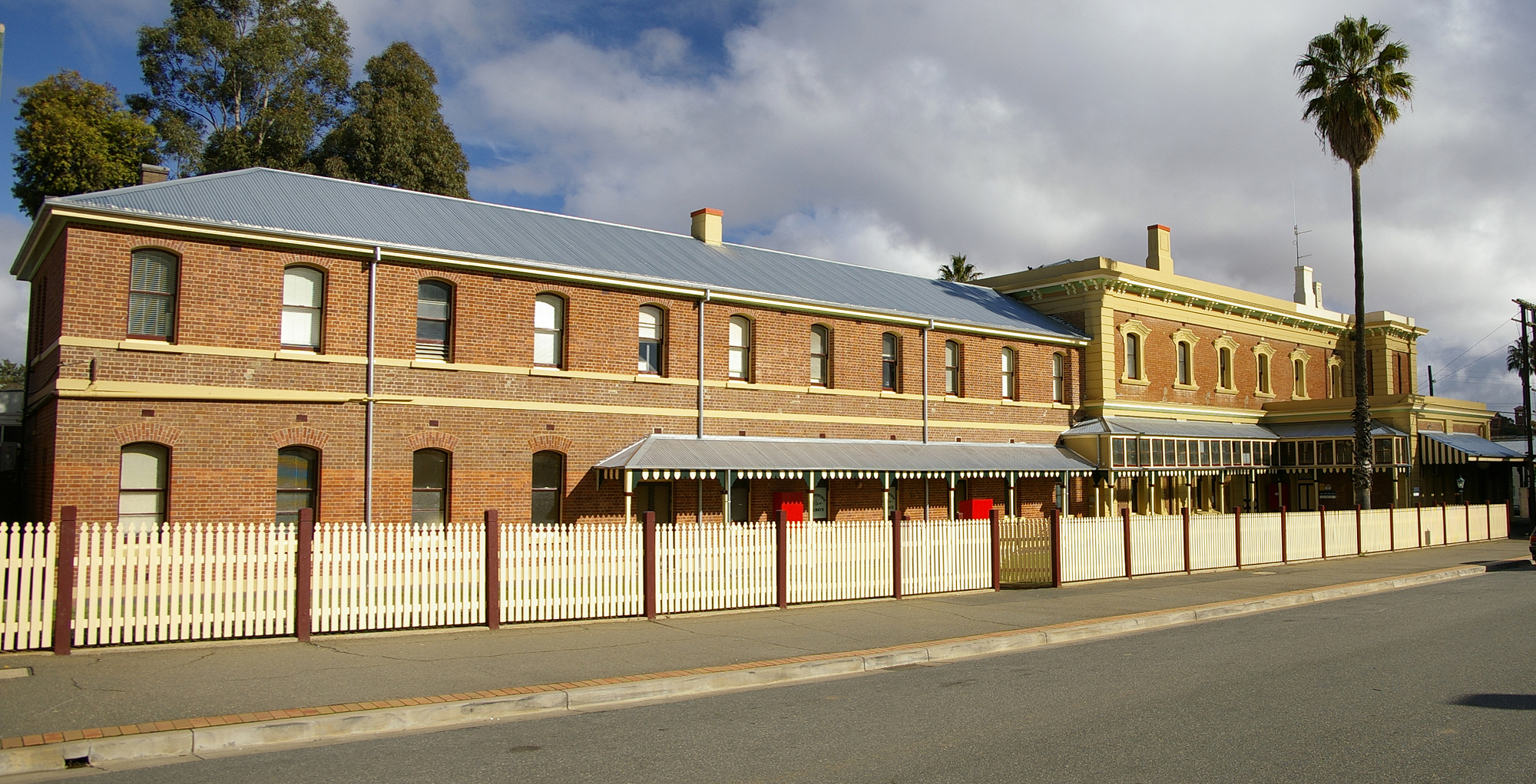 Junee Railway Refreshment Rooms, incorrectly referred as the former Railway Hotel which is located on the otherside of the railway line (known as Junee Hotel today), in Junee.